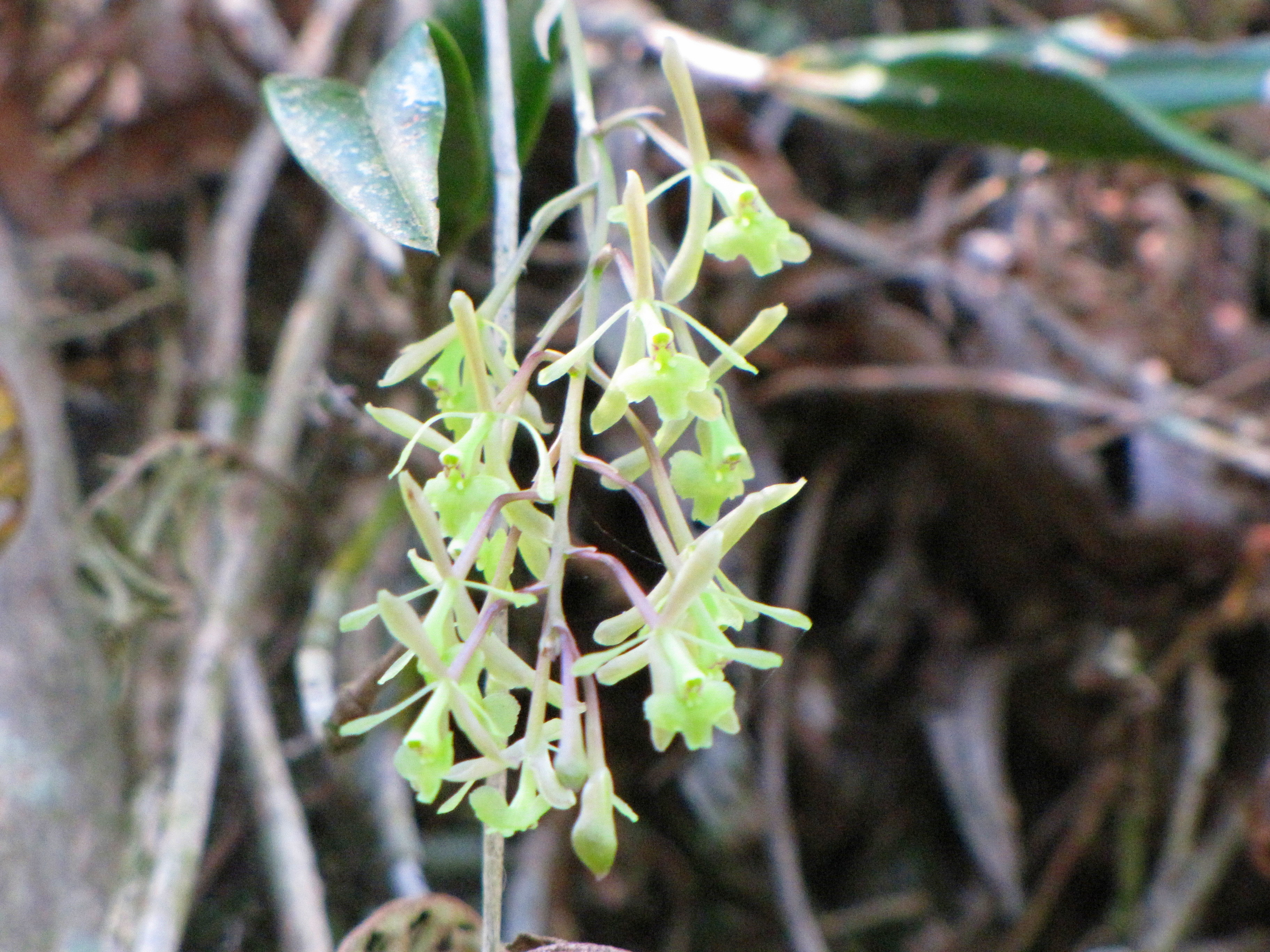 Epidendrum conopseum Withlacoochee River Park Pasco County, Florida